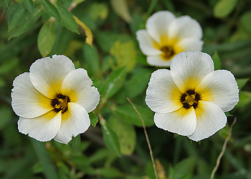 Turnera subulata in Hyderabad , India.